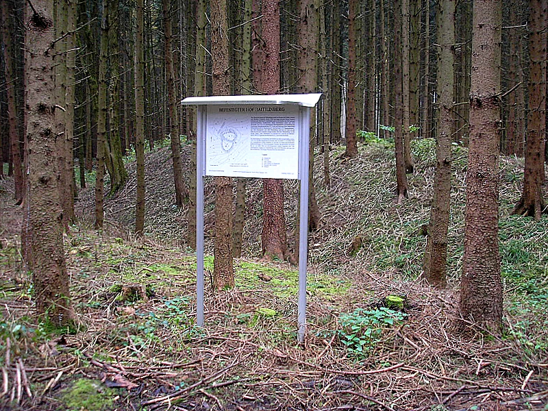 Early middle age ringwork "Kirchholz" near Haberskirch and Dasing (Bavaria, Germany). The information board and the eastern wall of the bailey.